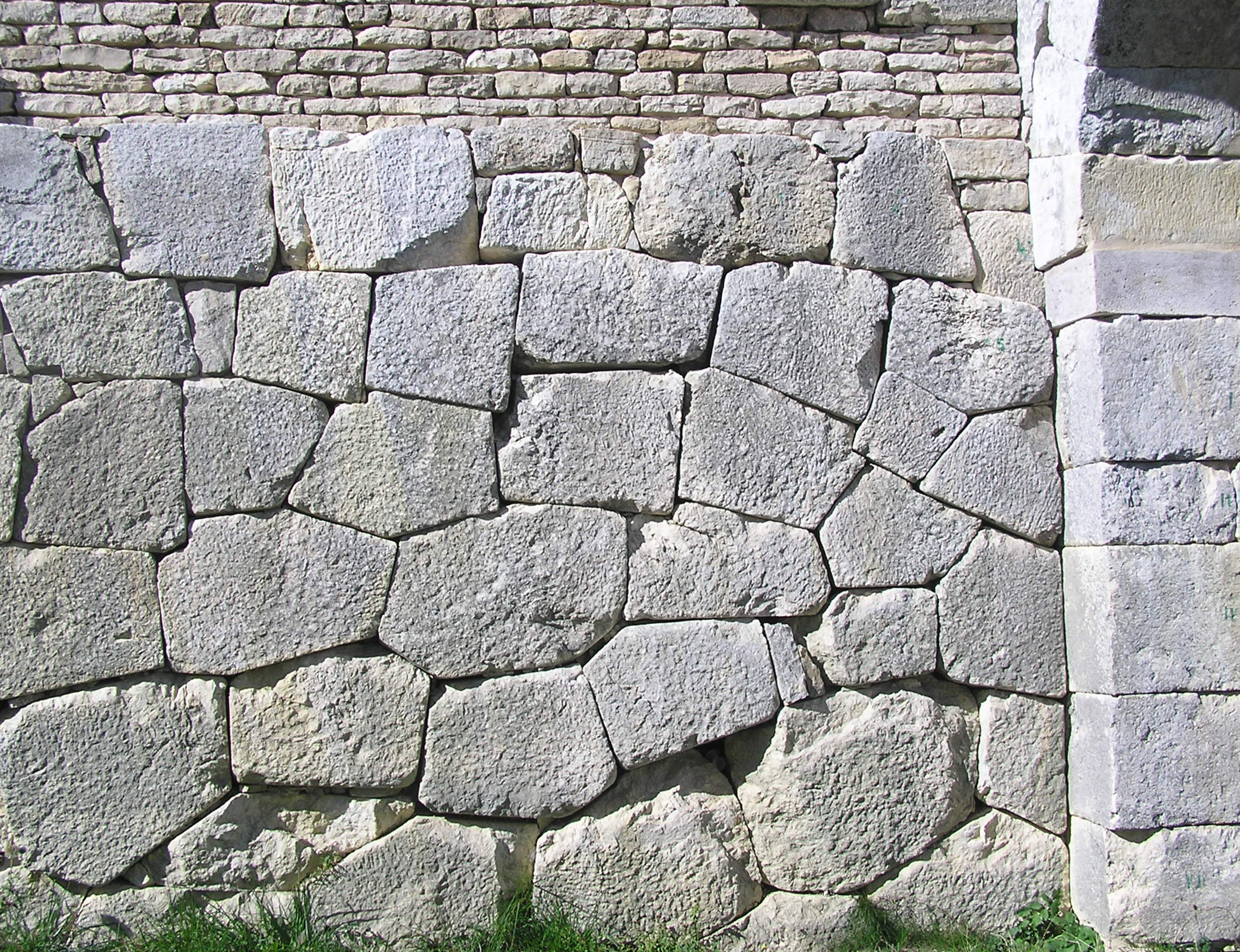 Polygonal masonry in the ancient theatre of Pietrabbondante in the Province of Isernia, Molise, Italy.